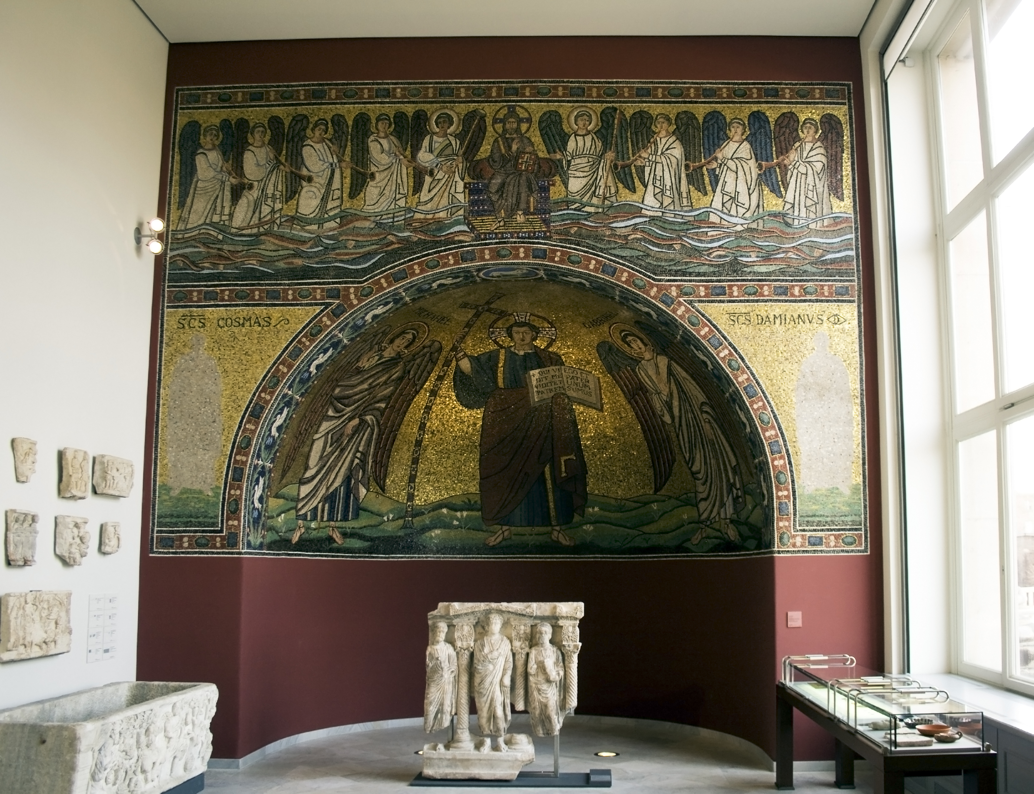 San Michele in Africisco (Ravenna) Native nameChiesa di San Michele in AfriciscoLocationRavenna, Emilia-Romagna, ItalyCoordinates44° 25′ 07.32″ N, 12° 11′ 54.6″ E Authority control : Q3671369 VIAF: 312658085 institution QS:P195,Q3671369